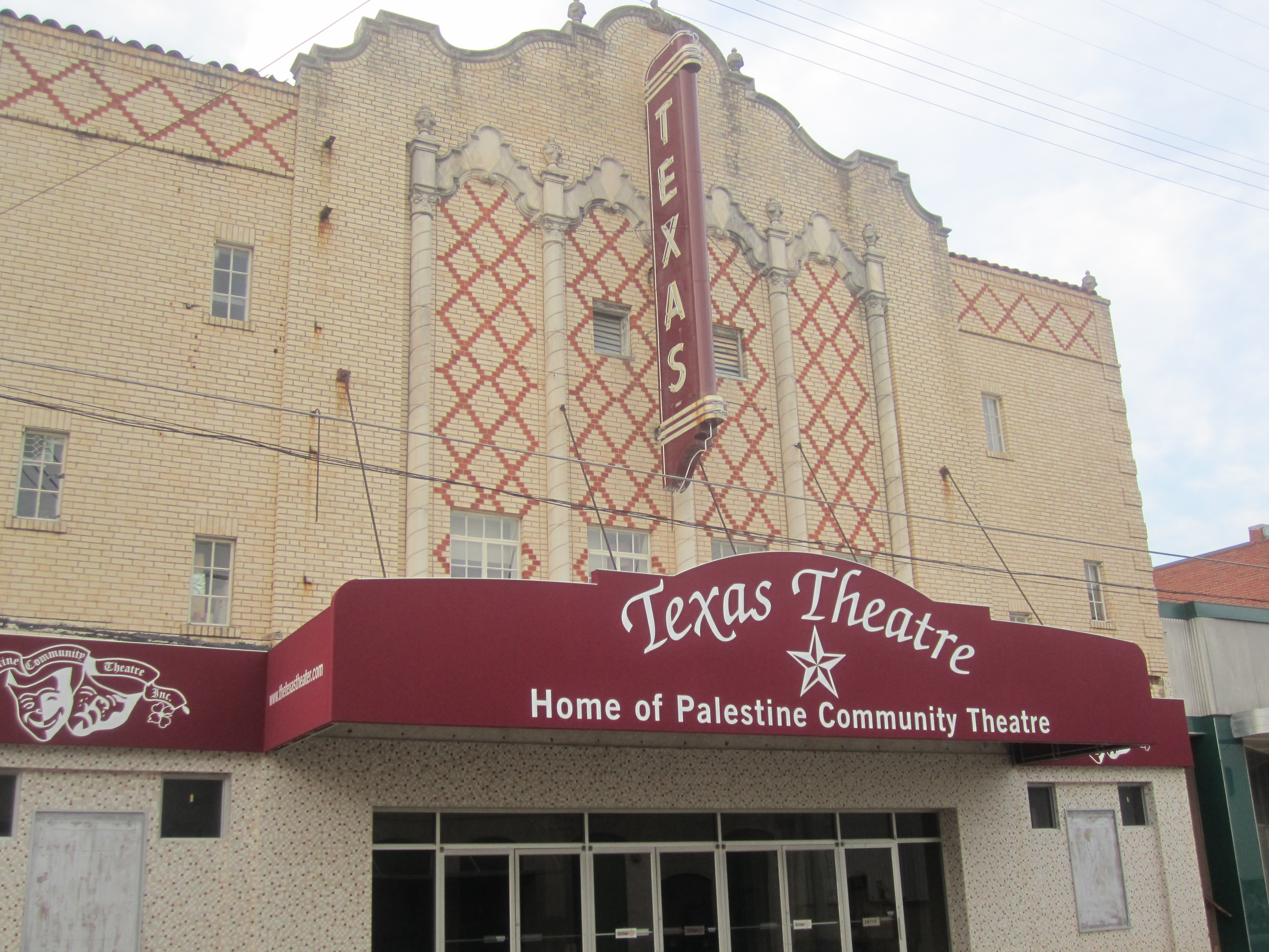 I took photo of Texas Theatre in Palestine, TX, with Canon camera.